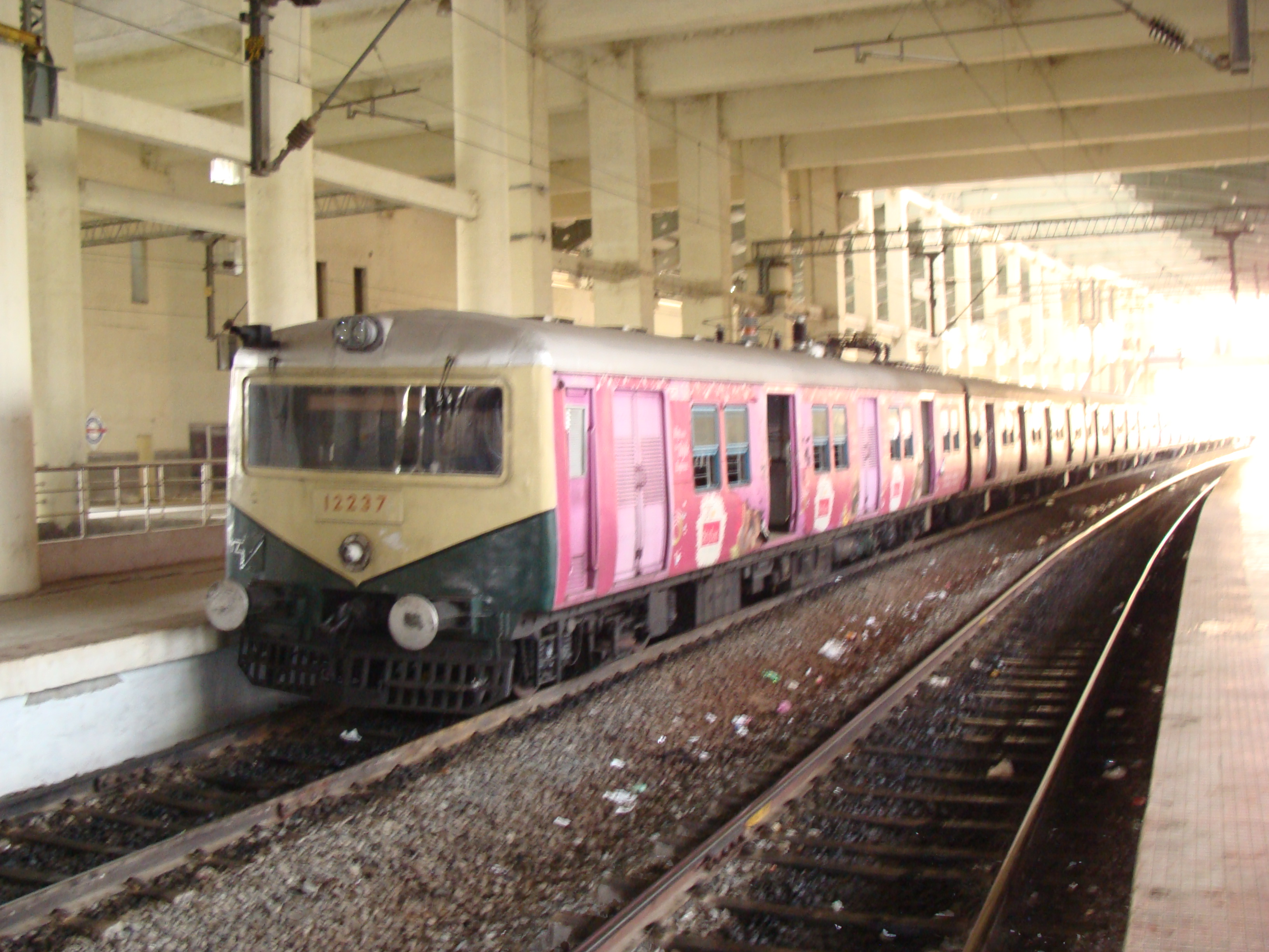 EMU at velachery MRTS station